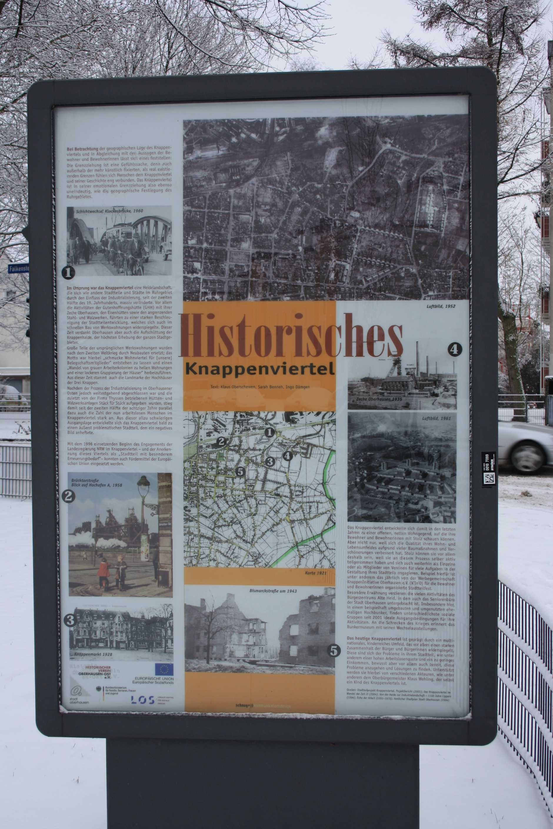 Oberhausen-Knappenviertel Informationen